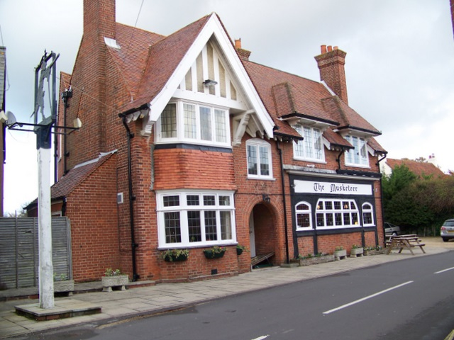 The Musketeer, Pennington The pub is on North Street.